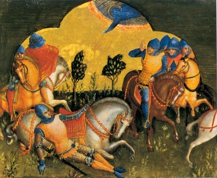 4_Lorenzo_Veneziano_Conversion_of_Paul_1370_Staatliche_Museen,_Berlin